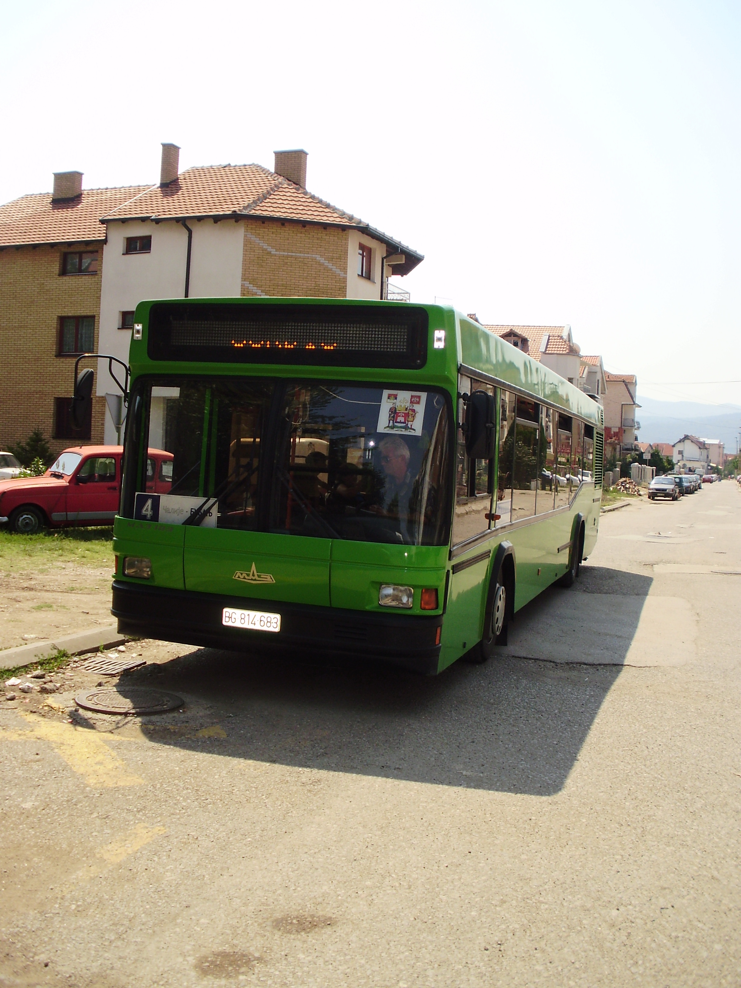 MAZ-103 bus in Niš, Serbia.